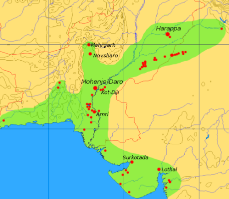 This map is a provisional outline of the Indus Civilization based on online sources. It is the best GFDL map we have so far, but it should be redrawn with greater accuracy and proper source attribution. The main source of the present map is a scan of some unidentified publication, [1]. Better maps: Britannica The Indus Civilization Exhibition at Tokyo and Nagoya Harappa Archaeological Research Project, hosted on a Catalan University website